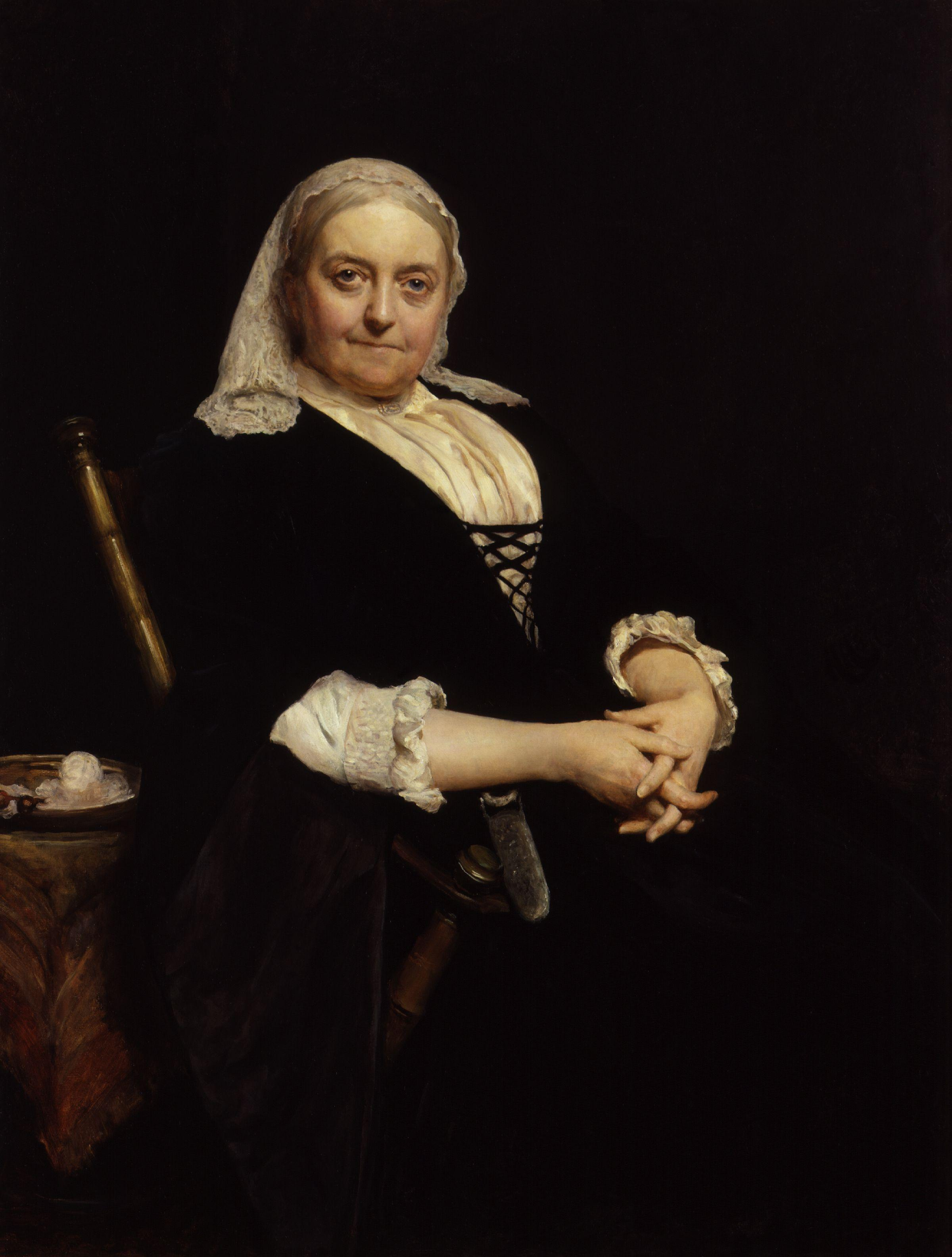 Dinah Maria Craik (née Mulock), by Sir Hubert von Herkomer (died 1914), given to the National Portrait Gallery, London in 1946. All images in this batch have been confirmed as author died before 1939 according to the official death date listed by the NPG.